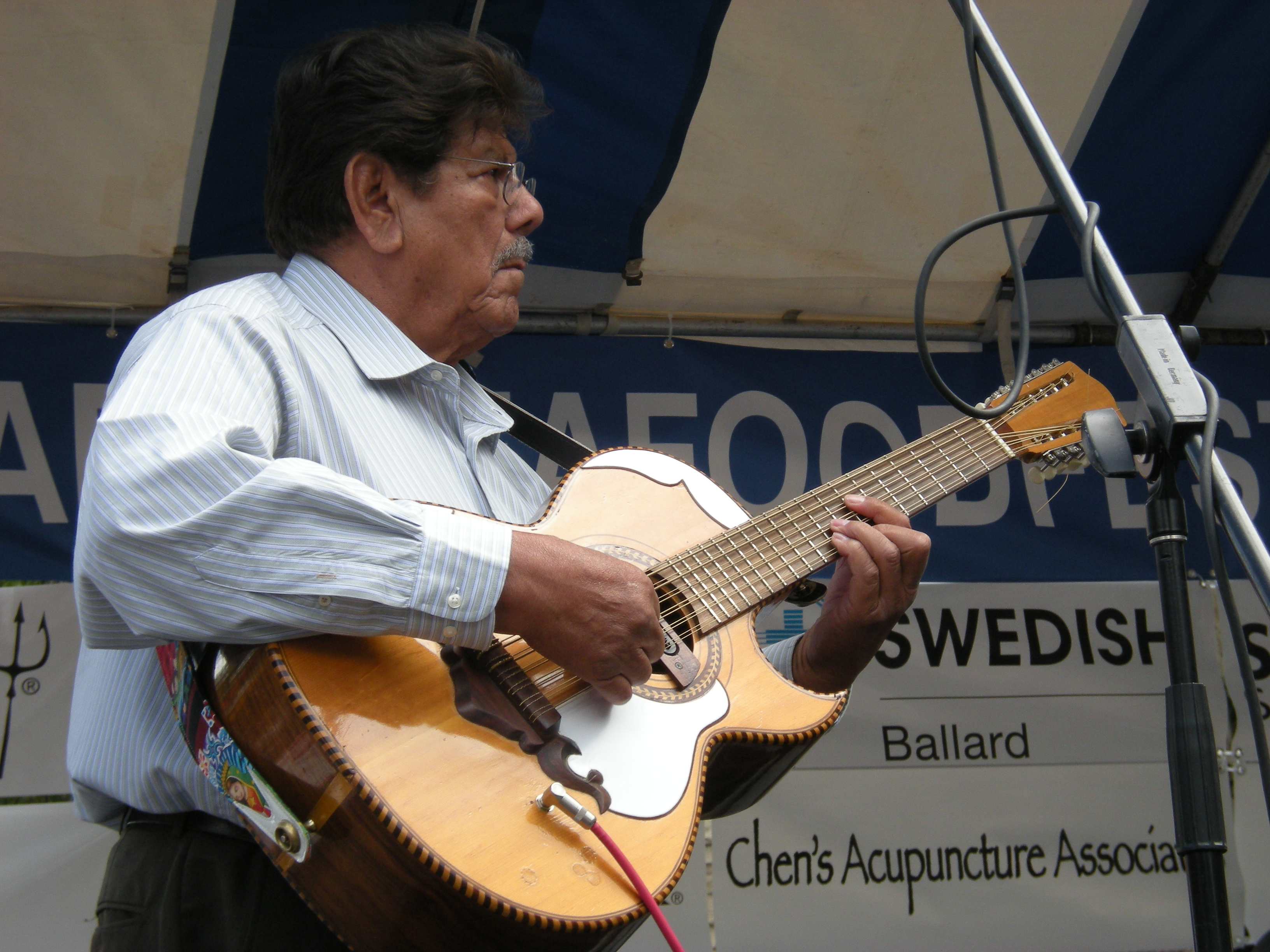 Bajo sexto player José Guadalupe Guzmán performing with Juan Barco y su Conjunto at Ballard Seafood Fest, Ballard, Seattle, Washington.